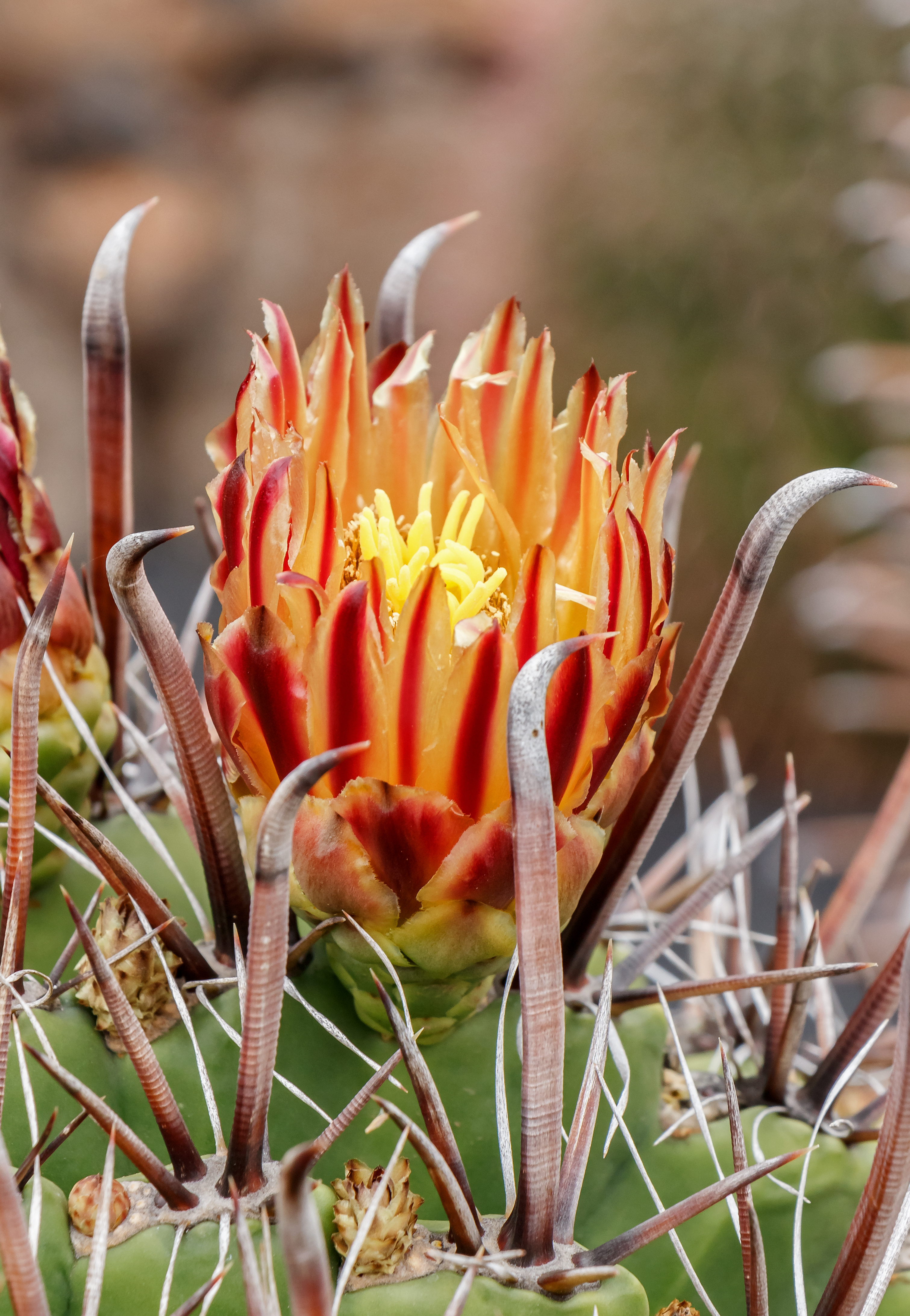 Ferocactus herrerae J.G. Ortega, flower; Jardin de Cactus, Guatiza, Lanzarote, Canary Islands, Spain.